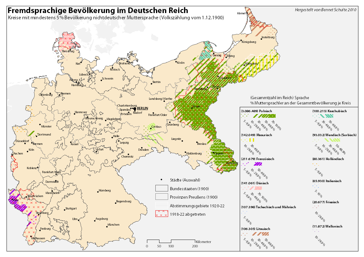 Map of the German Empire in 1900 showing the language minorities